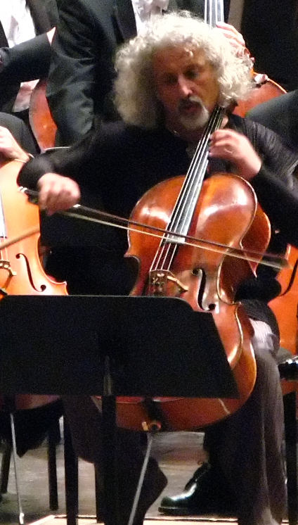 Mischa Maisky playing Brahms double concerto